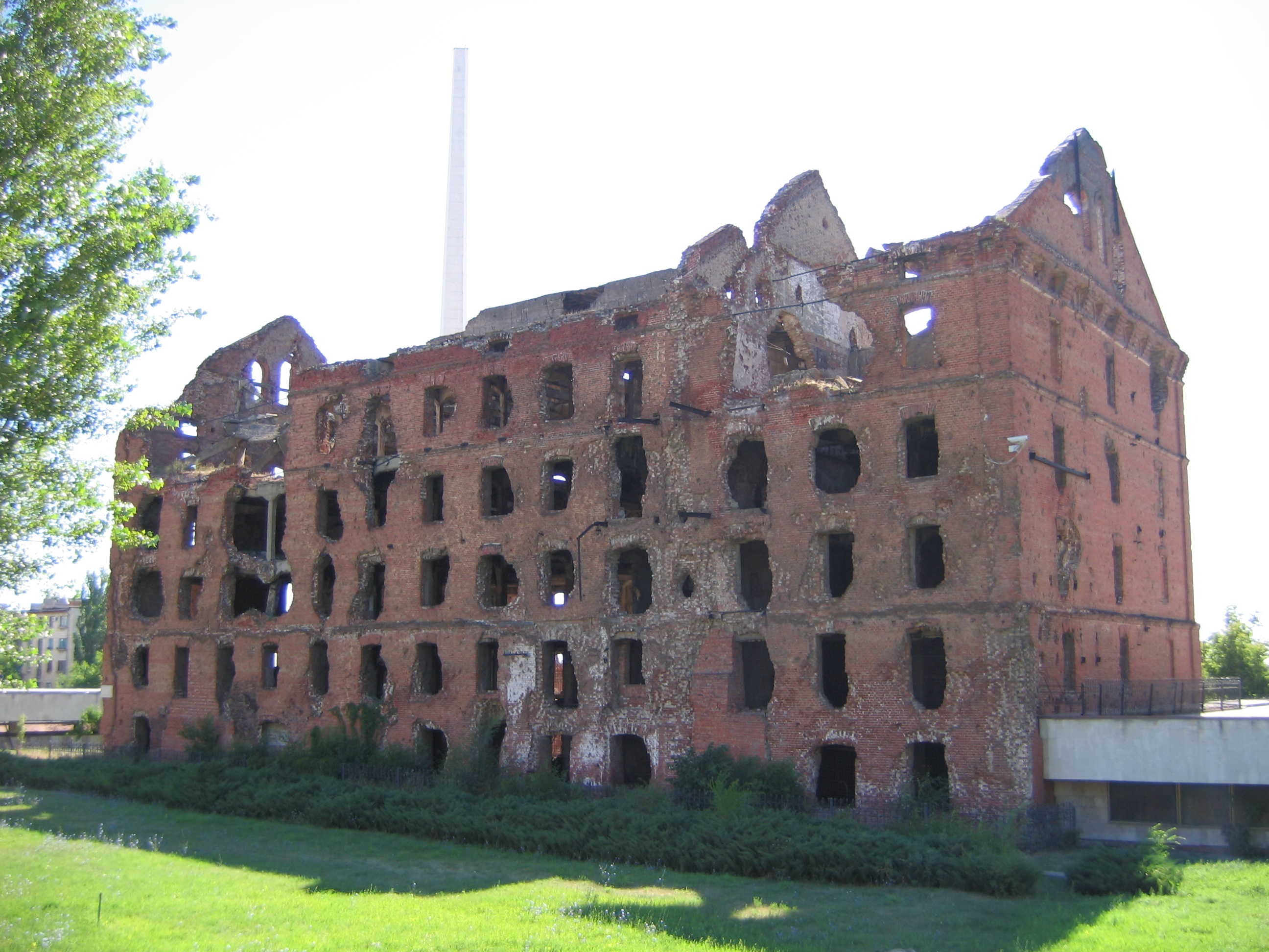 Ruins of old mill saved as a monument of WW2, Volgograd, Russia